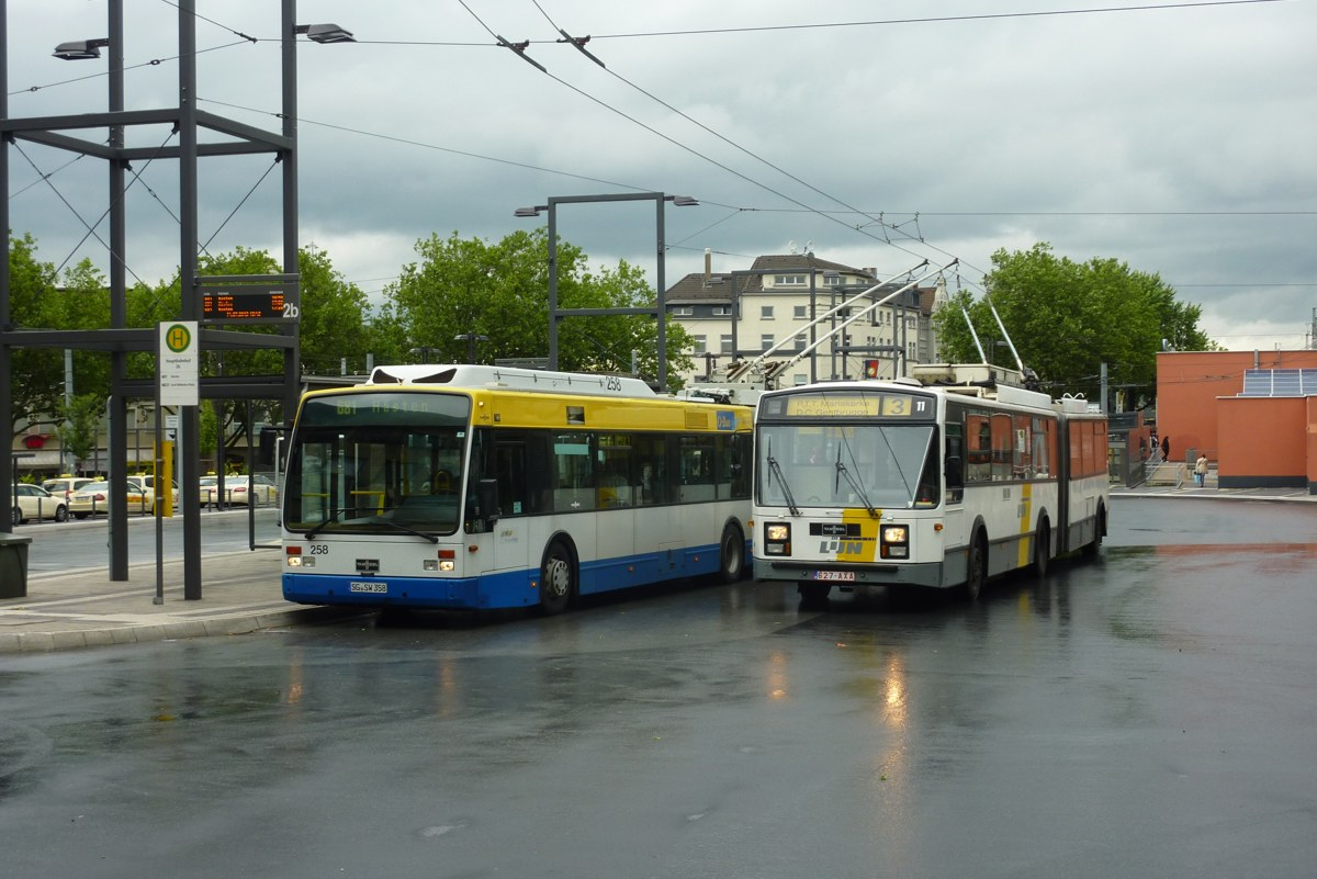 Solingen trolleybus 258, a Van Hool AG300T, being passed by ex-Gent (Belgium) trolleybus 7411, a Van Hool AG280T on a special excursion, at Solingen Hauptbahnhof bus station.